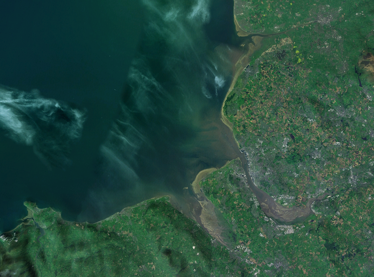 A satellite photograph of Liverpool Bay, showing the West Lancashire Coastal Plain River Ribble at the top (north), the River Alt (hardly visble), River Mersey (centre) River Dee and the River Conwy in the south west.